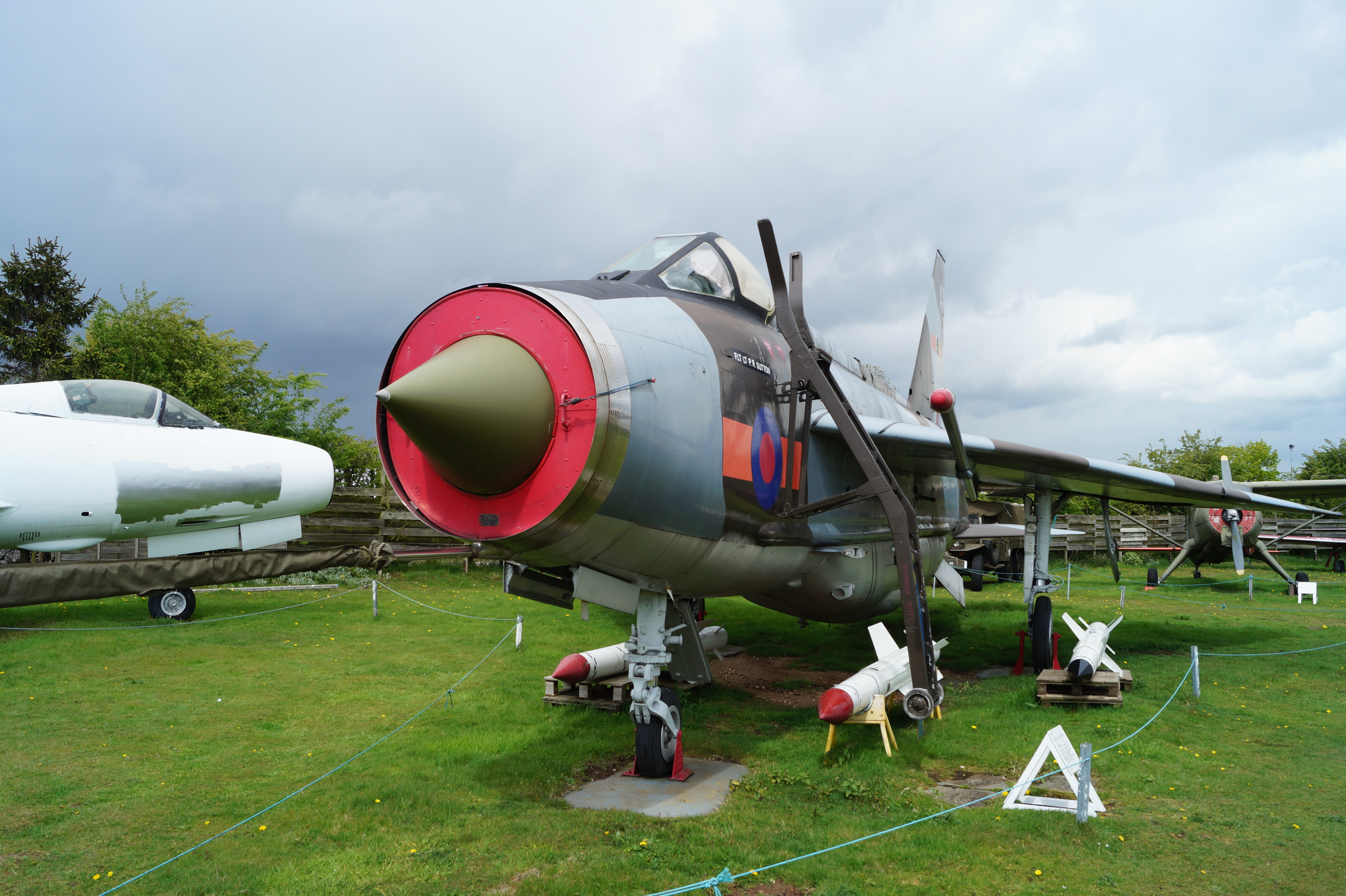 BAC Lightning F.6 based at Midland Air Museum, Coventry